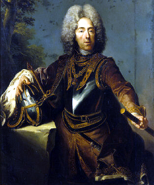 Prince Eugene of Savoy by Jacques van Schuppen